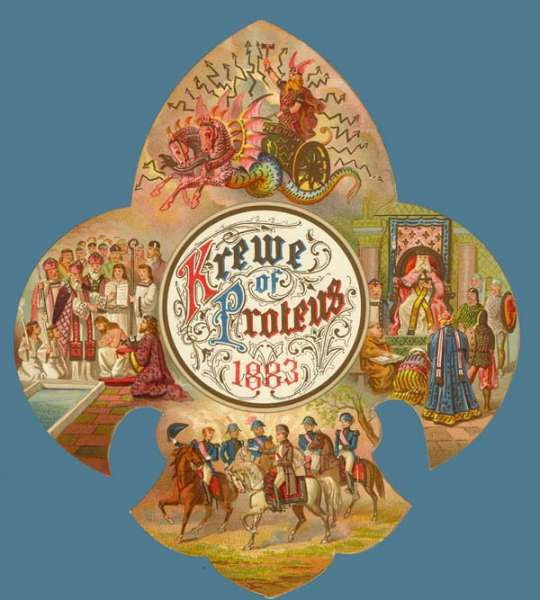 Cover of invitation to Krewe of Proteus Mardi Gras Ball, New Orleans, 1883. Theme "the History of France".